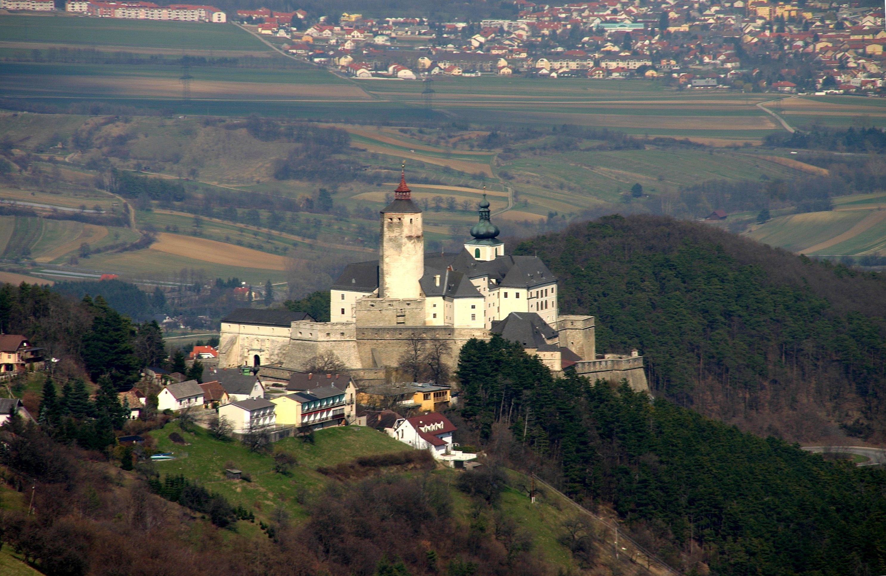 Forchtenstein Castle - Forchtenstein Object location47° 42′ 35.05″ N, 16° 19′ 54.08″ E